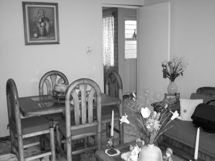 Image in gray scale mode for articles on image recognition